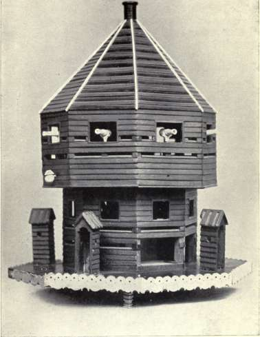 Mahogany model of the Norman Cross Block House made by a French prisoner in 1801.